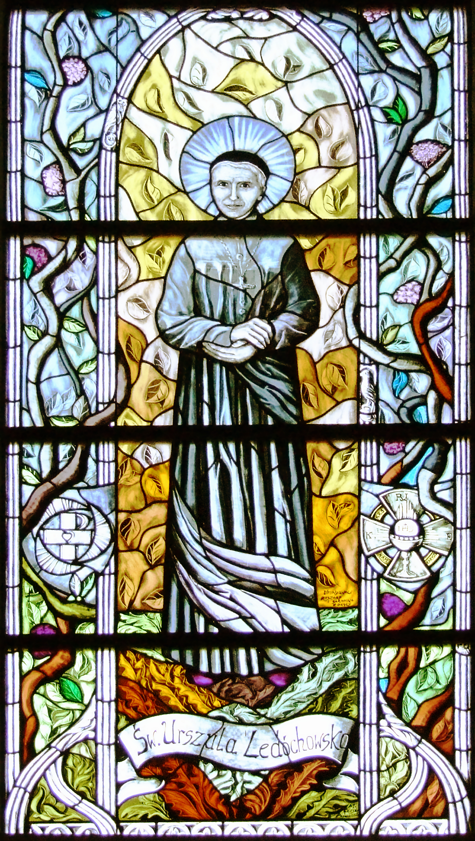 Poznań, Church of Saint Adalbert, stained-glass window